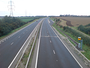 A1079 Beverley Bypass, East Riding of Yorkshire, looking Westbound (this being one of the two short dual carriageway sections). This photo has been sharpened for smaller user.